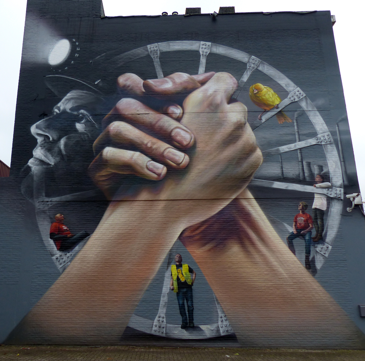 It's an ode to the blue collar workers who struggles hard each day to feed their families. FNV Union donated this mural in memory of the mining industries - painted by the artist SUPER A (NL)